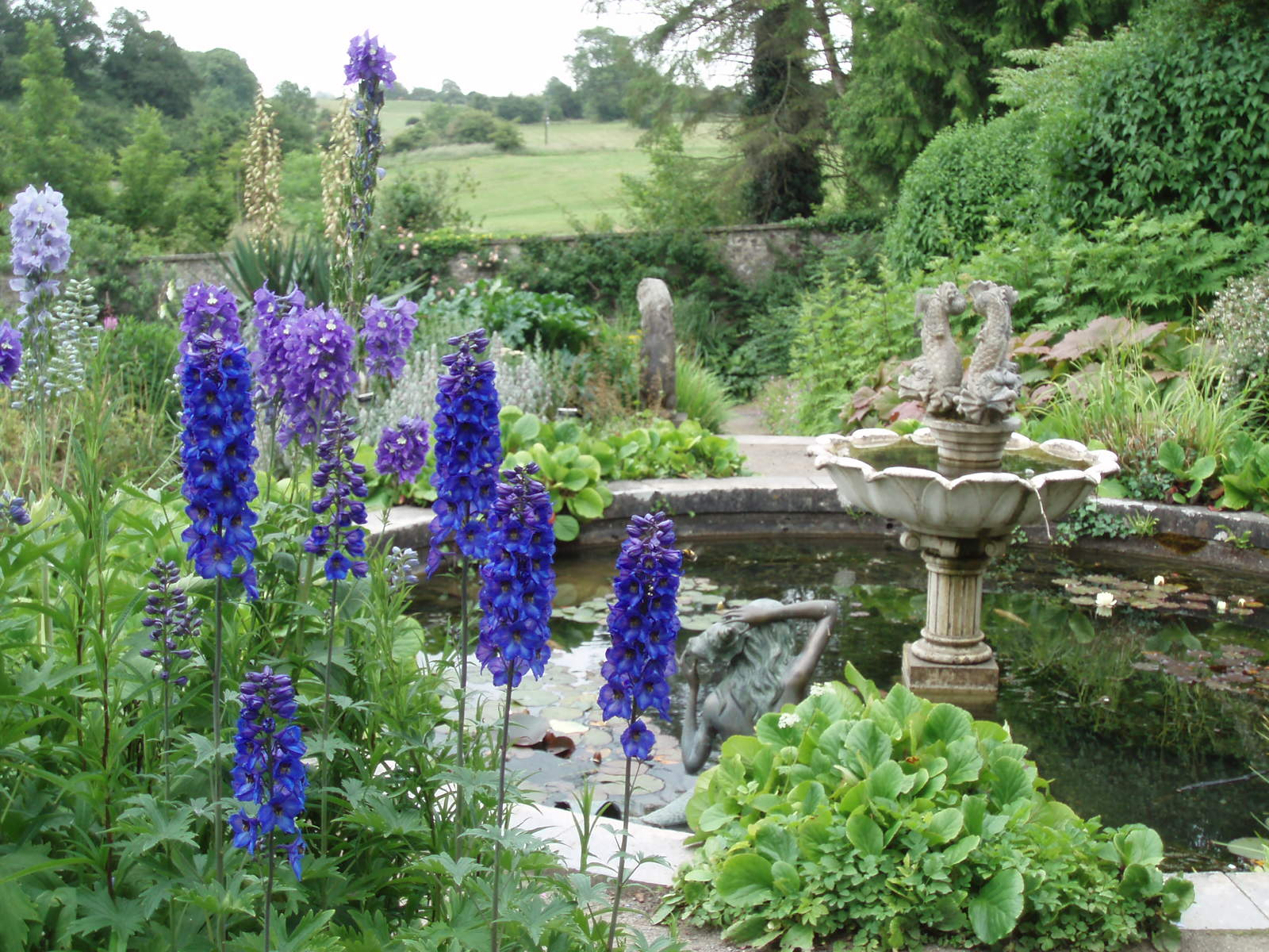 A view at Belvedere House and Gardens. County Westmeath, Ireland.